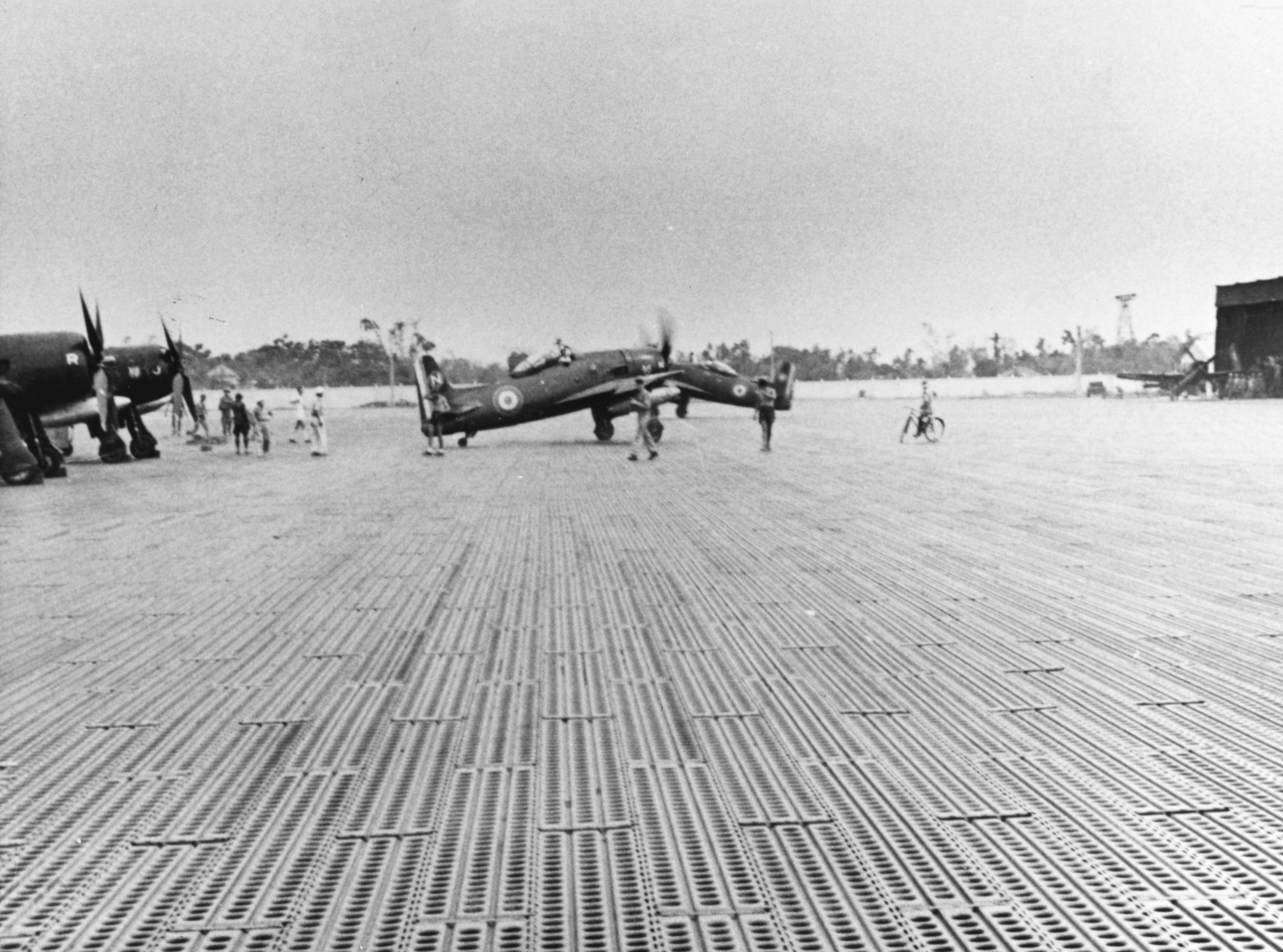 View of Tourane Airfield (Da Nang), Indochina, looking north, circa in 1954. Original caption: "New metal mat area on northeast side of runway. Two of three F8F aircraft observed departing on napalm mission. Aircraft returned in 35 minutes."